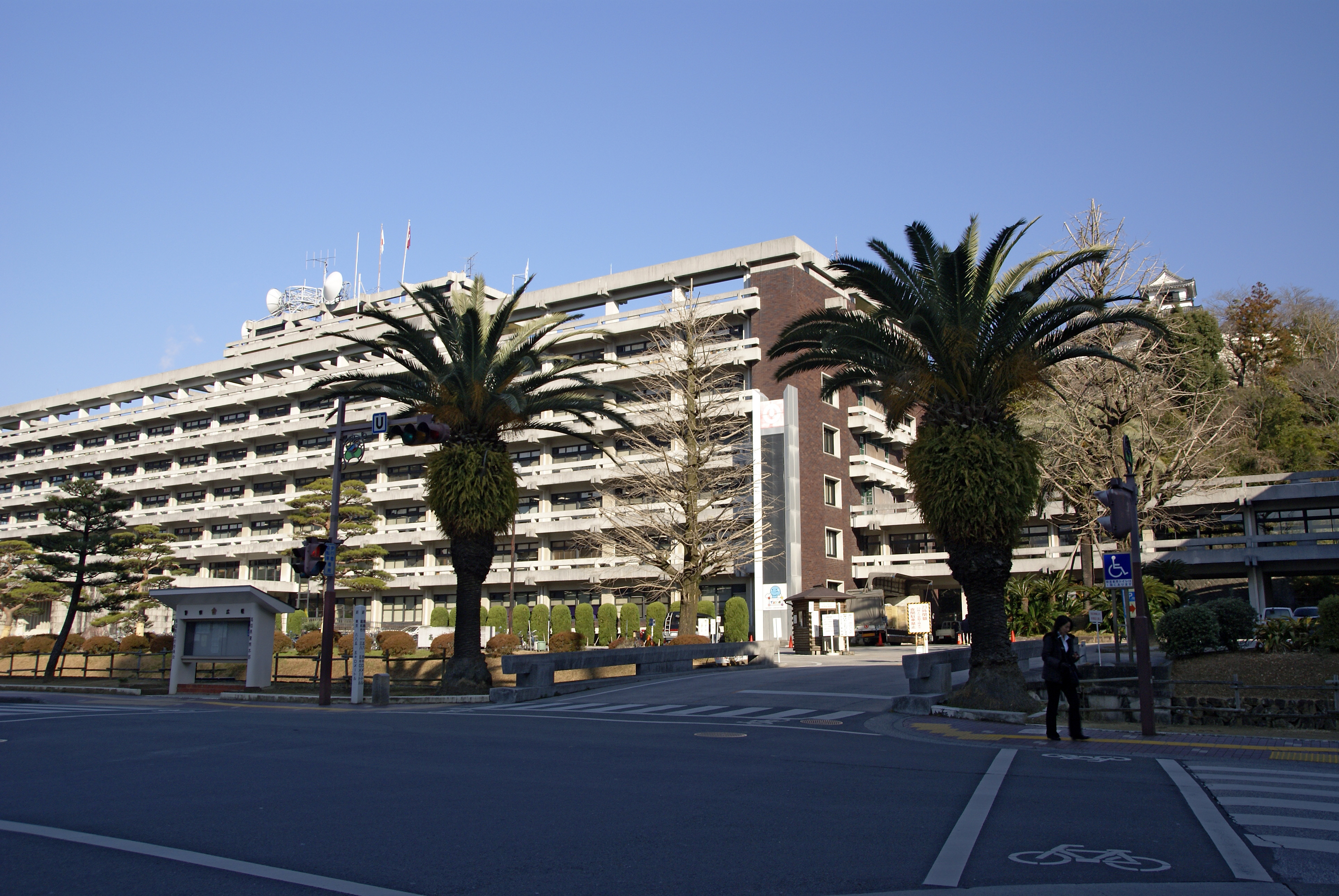 Kochi Prefectural Office Building in Kochi, Kochi prefecture, Japan